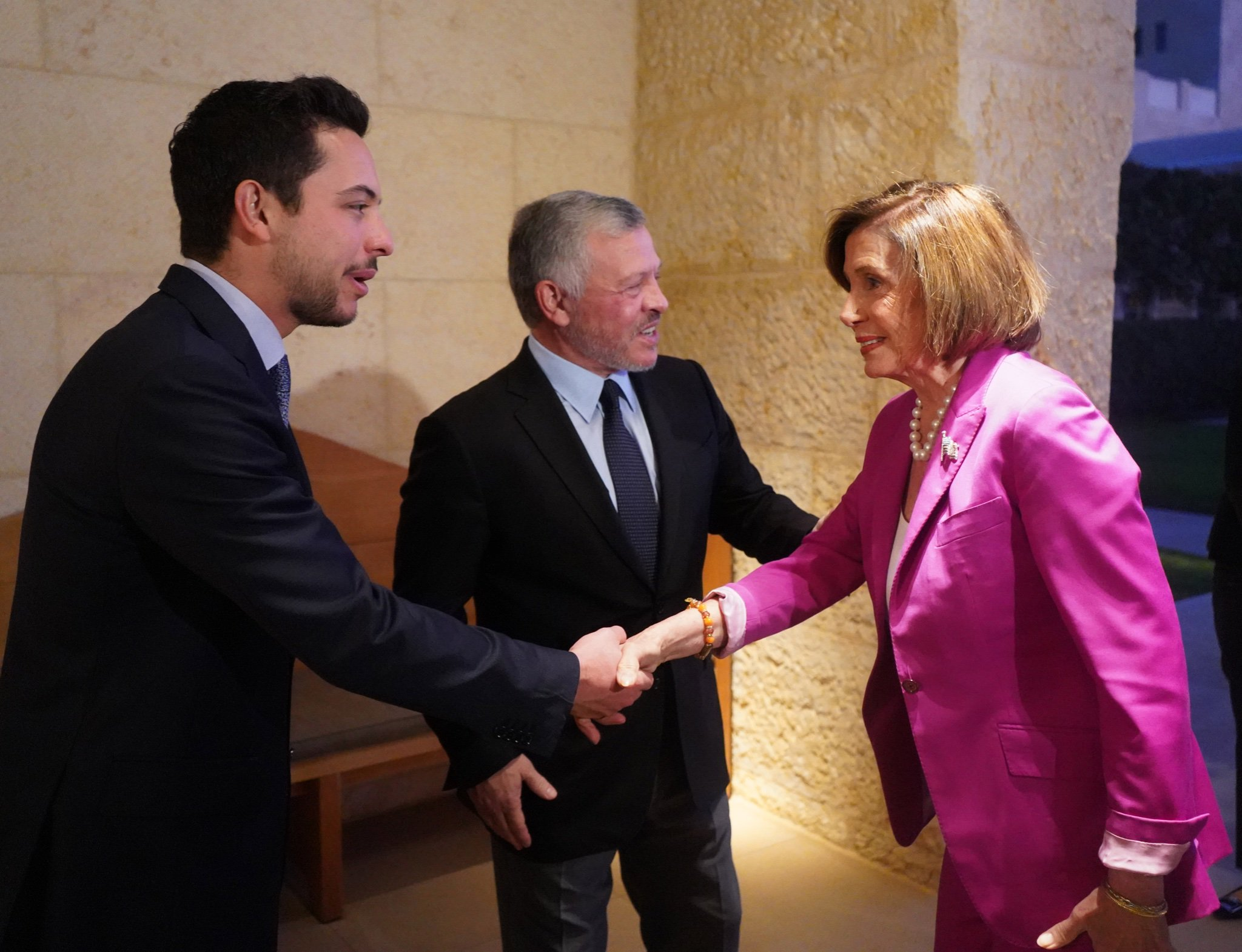 Yesterday, our bipartisan delegation met with King Abdullah II of Jordan & Crown Prince Al Hussein bin Abdullah II to discuss the US-Jordan strategic partnership, regional stability, counterterrorism, security cooperation, Middle East peace, economic development & other shared challenges.